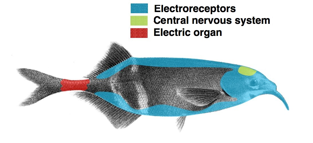 Mormyrus petersii = Gnathonemus petersii (Günther, 1864) with the CNS shown in green, electroreceptors in blue and electric organ in red